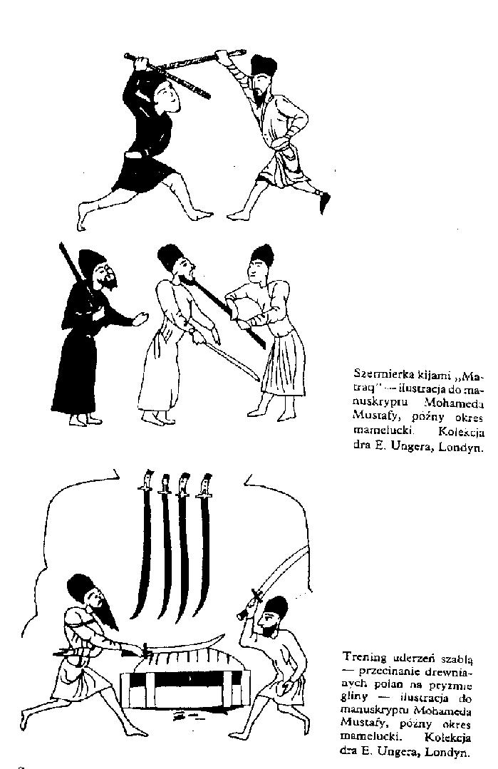 Mamluk Tahtib illustration from the Manuscript of Mohamed Mustafy, Mameluck Fencing, Collection of E. Unger, London